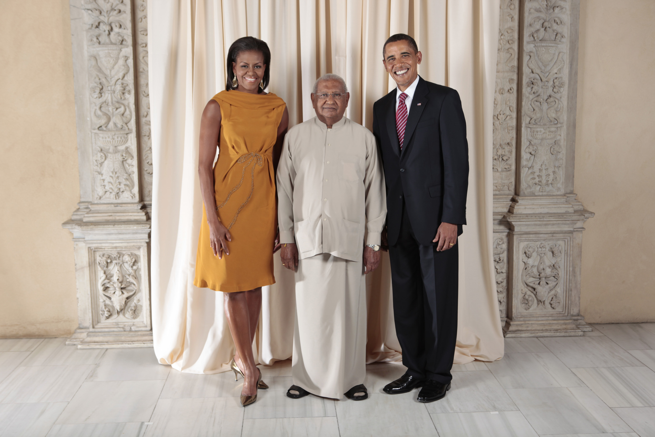 President Barack Obama and First Lady Michelle Obama pose for a photo during a reception at the Metropolitan Museum in New York with Ratnasiri Wickremanayake, Prime Minister of Sri Lanka.